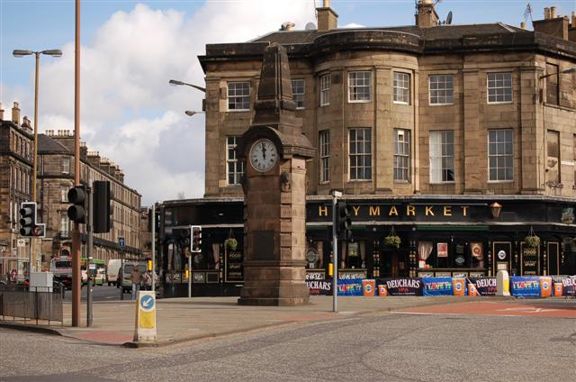 War Memorial The clock in the centre of this picture is on a war memorial to the players and officials of Heart of Midlothian Football Club who lost their lives in the two world wars.